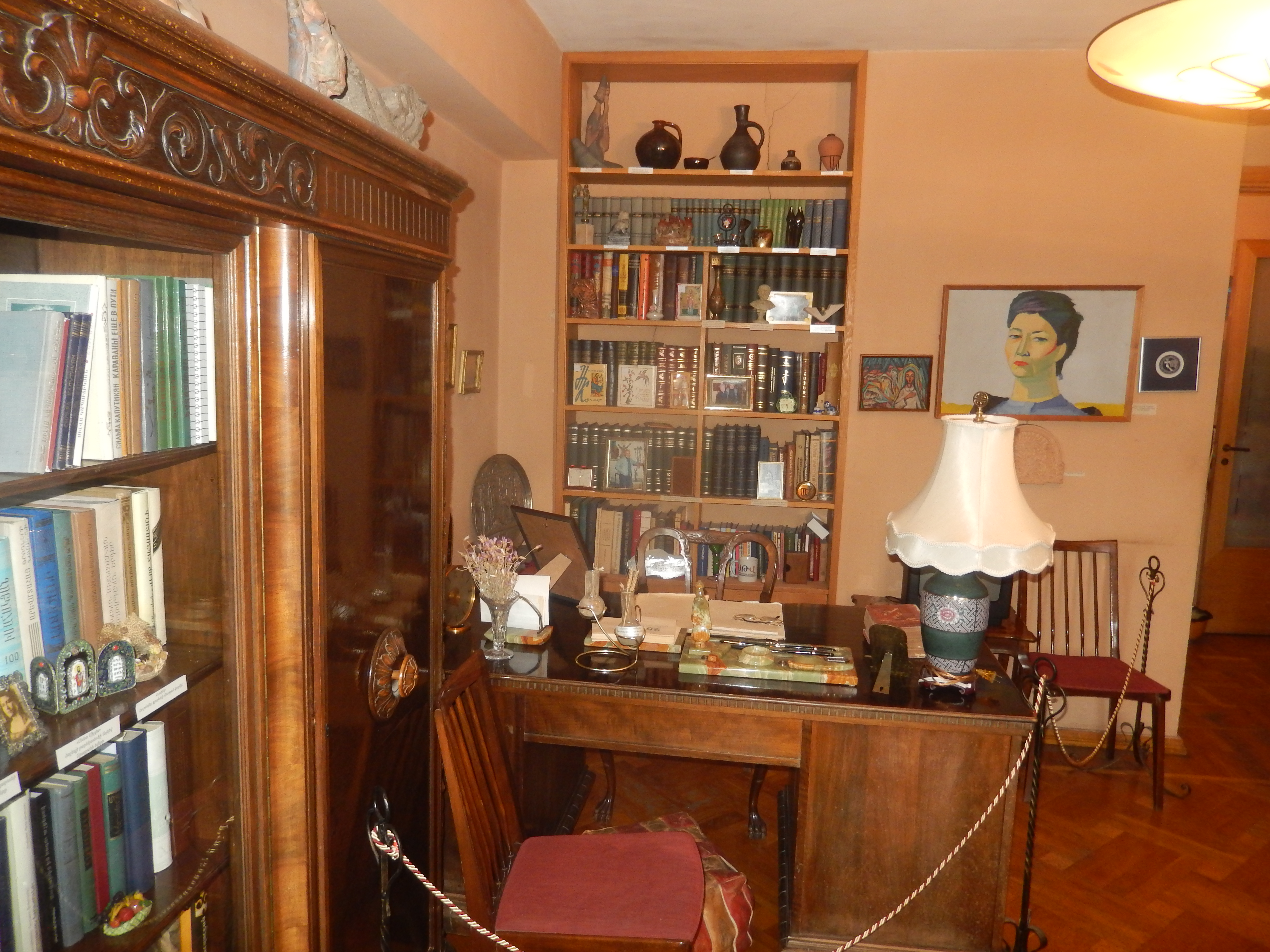 Silva Kaputikyan House Museum